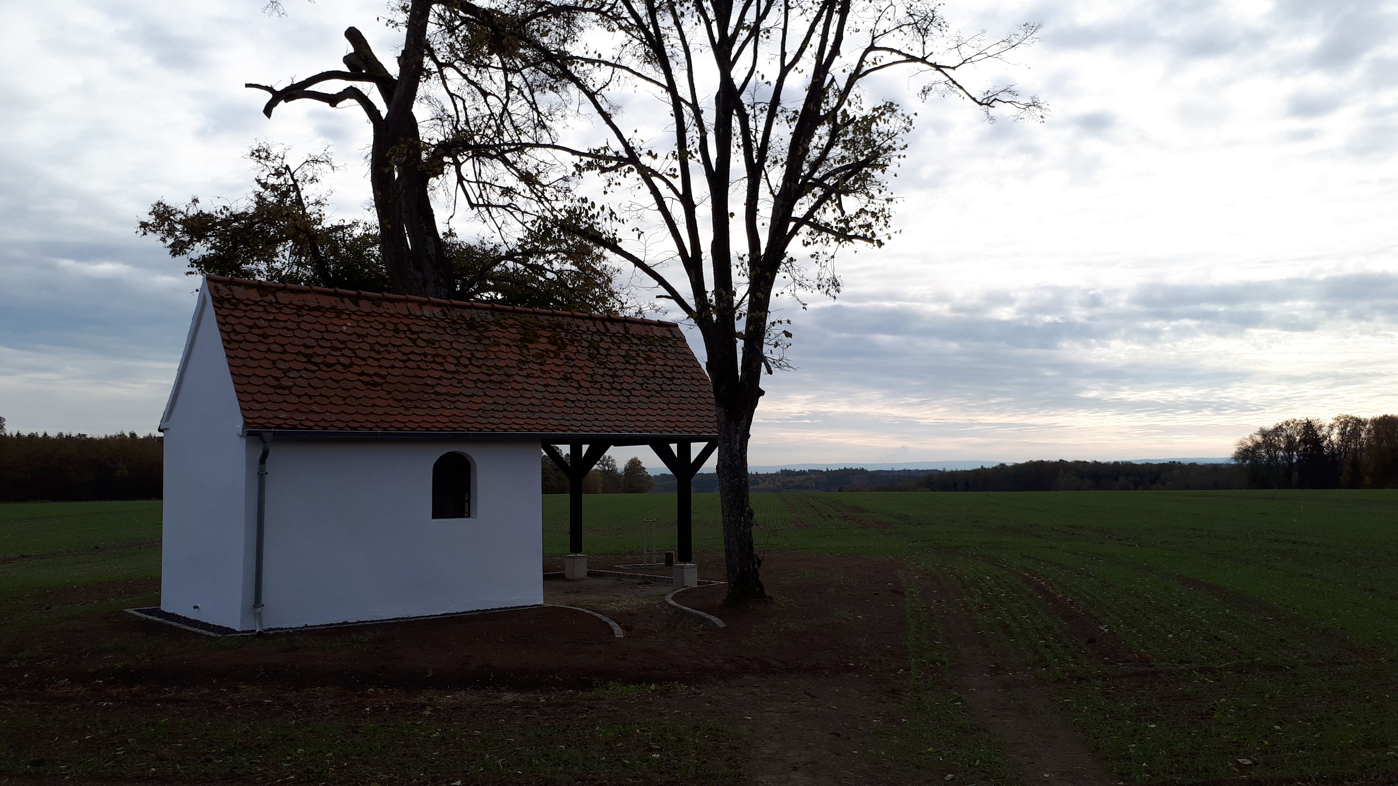 St. Peterskapelle, Chapel St.Peter, Uttenstetten, Fremdingen, Bavaria, Germany